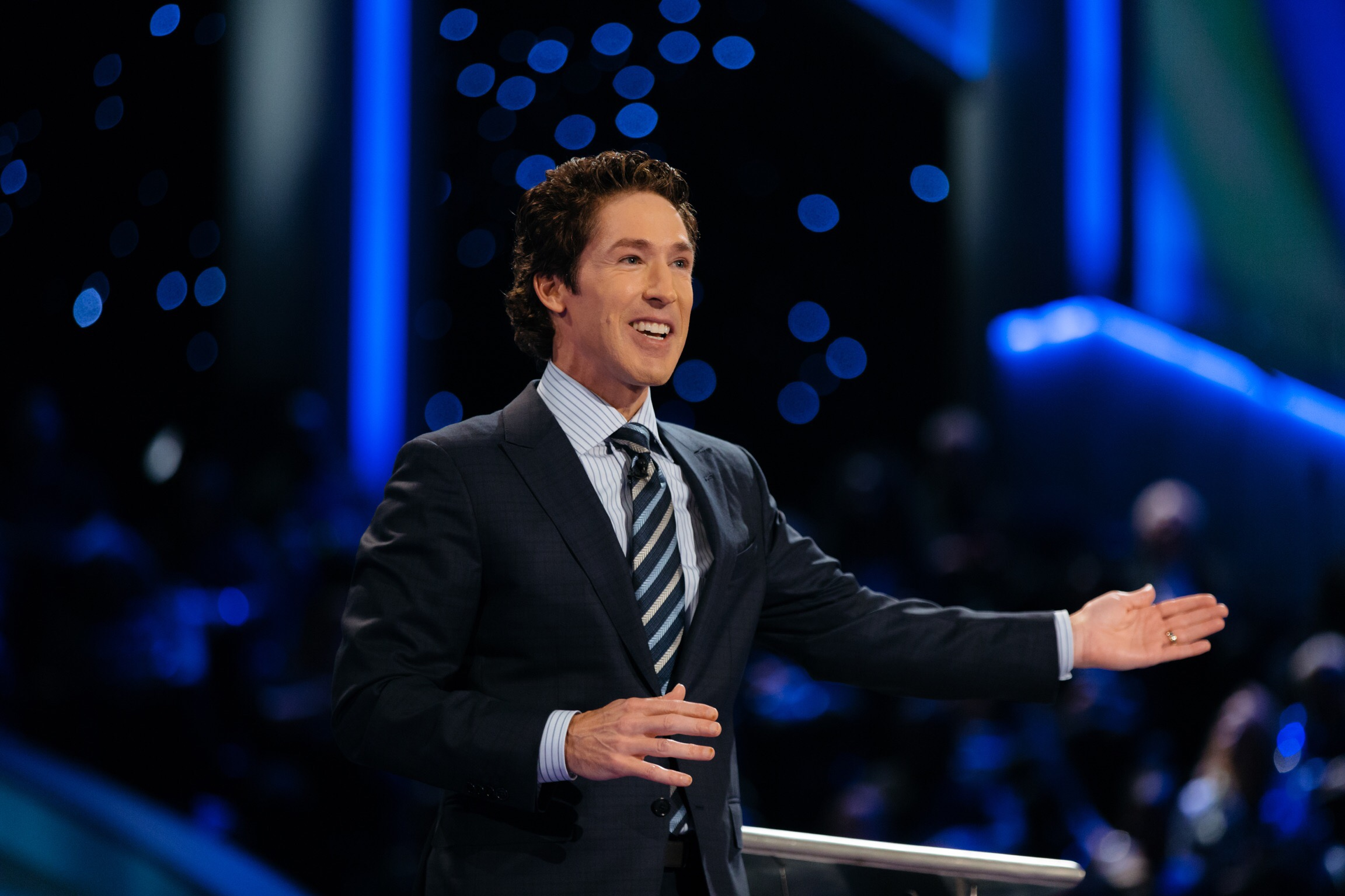 Osteen preaching at Lakewood Church on July 17, 2016.